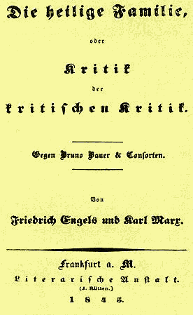 Marx, Engels: The Holy Family, 1844